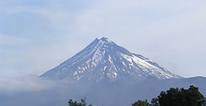 Small pic of Mount Egmont. Taken by a friend. This was actually just a feature in a larger picture, but it was high enough resolution to crop out the rest and still downsize it.